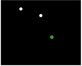 Navigation lights as described in International Regulations for Preventing Collisions at Sea illustrating vessel passing starboard